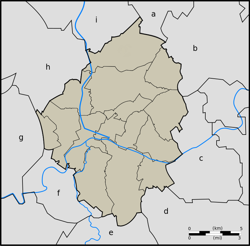 Map of adjacent municipalities of Charleroi, Hainaut, Belgium.